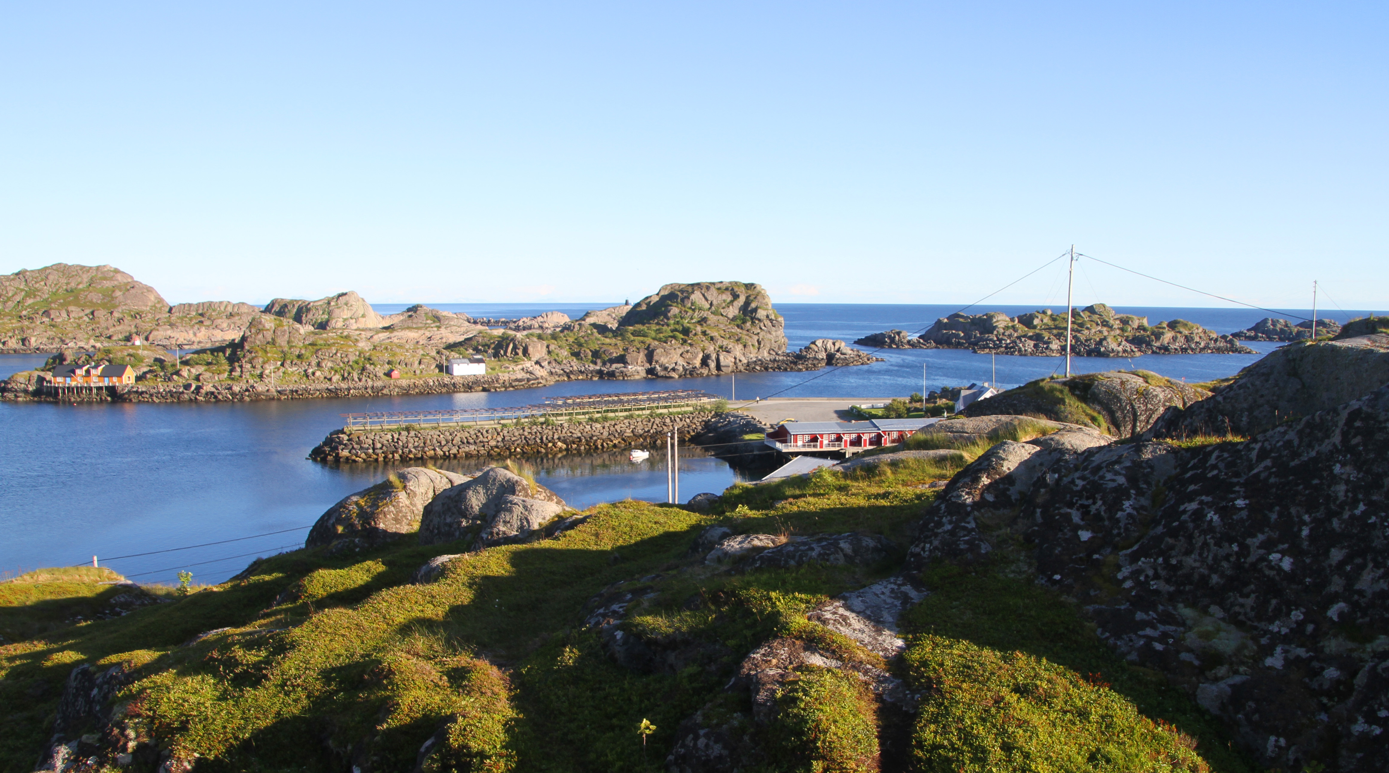 Settlement Mortsund, Vestvågøy, Lofoten, Norwegen